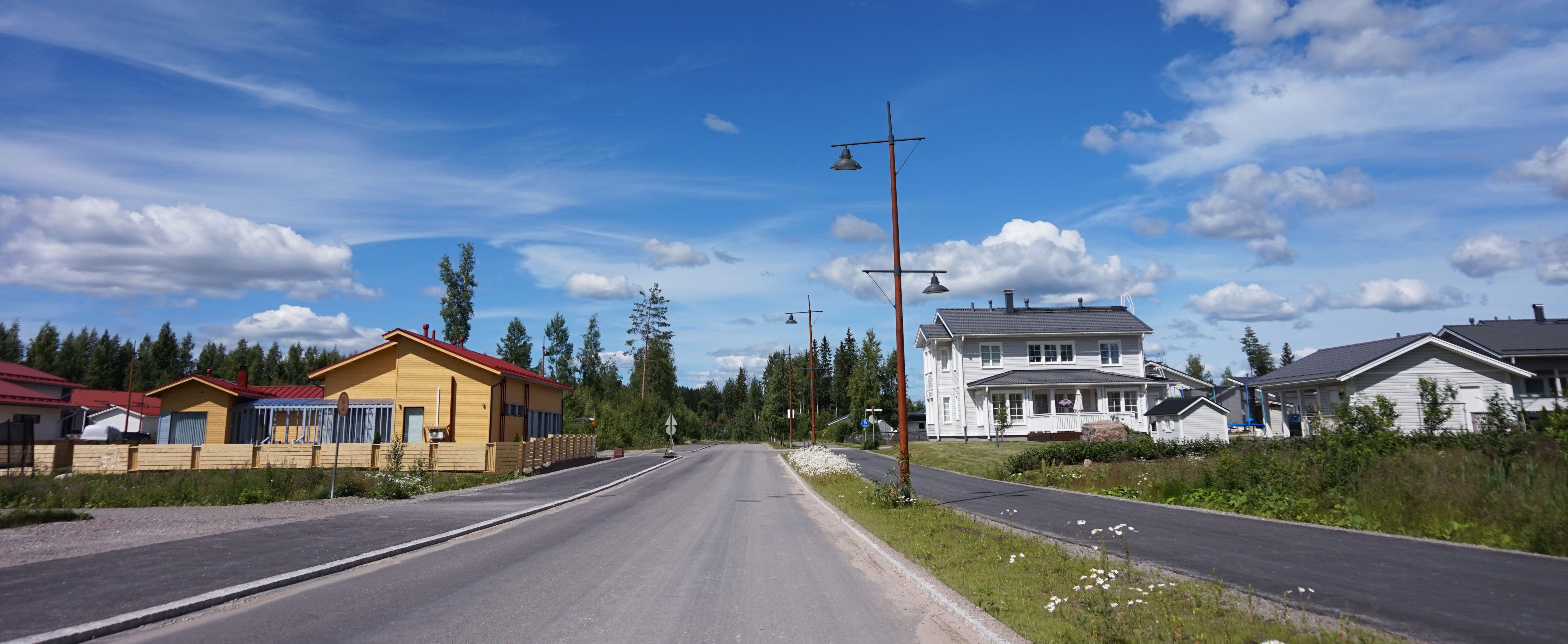 The street Kankaanpäänkatu in Lahti, Finland.This photograph was taken with a Sony ILCE-5000